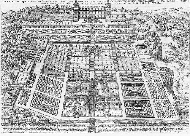 Bird's-eye plan view of the gardens at Villa d'Este (Tivoli), Italy.